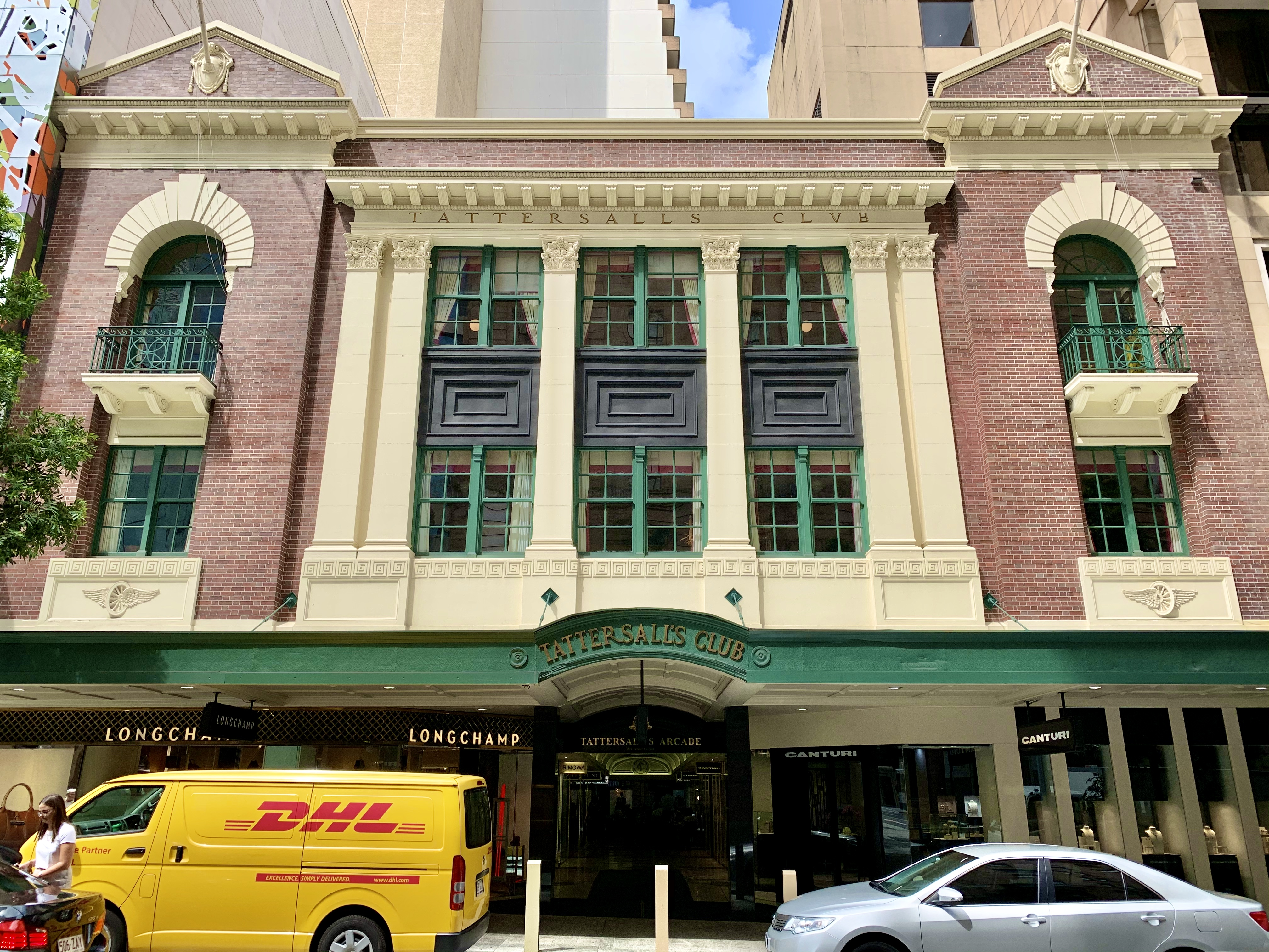 Tattersalls Club, Brisbane, Edward Street facade, 2020